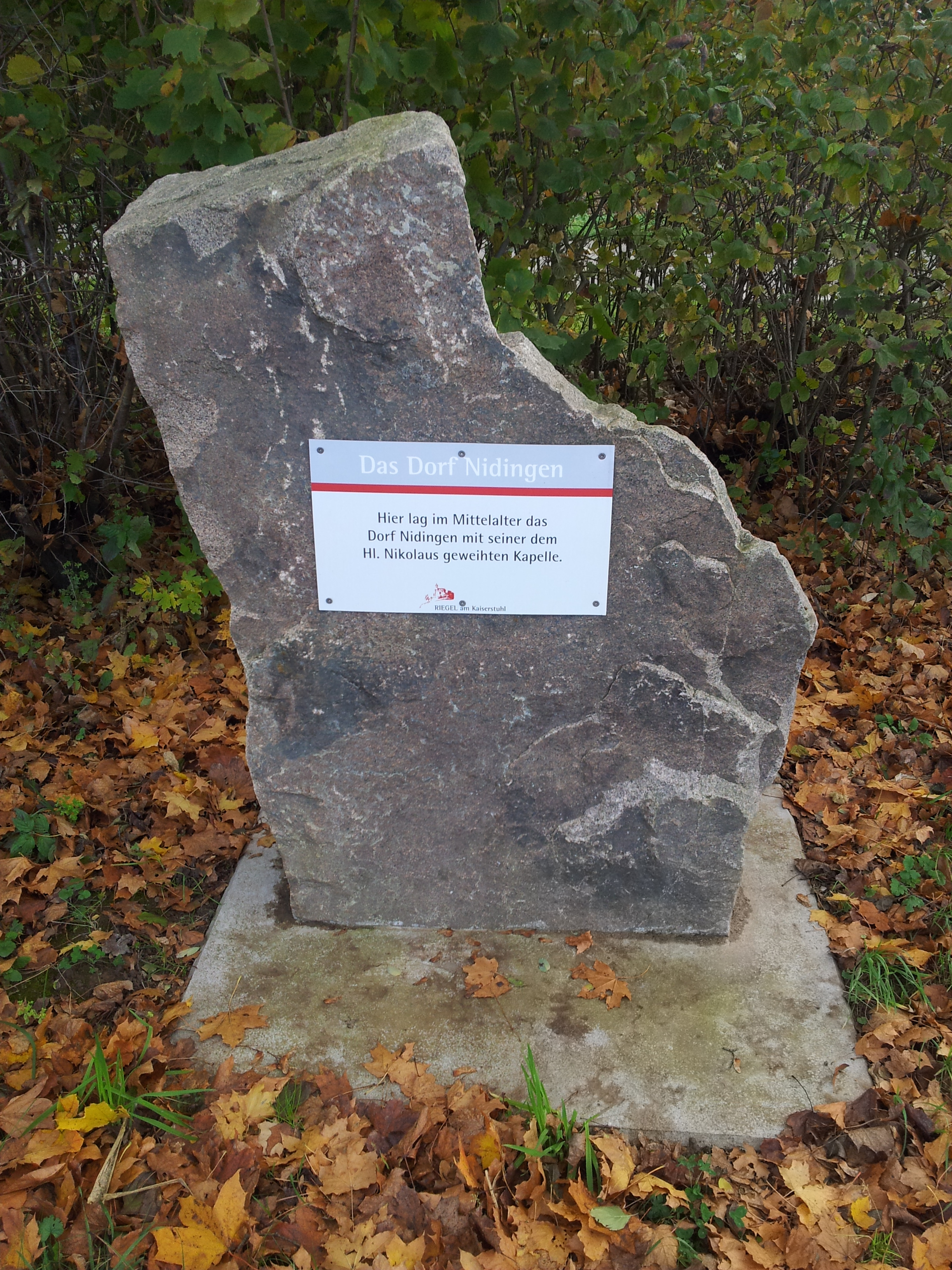 Memorial stone for the abandoned village Nidingen near Riegel in Southern Baden, Germany. The stone was donated by Heinz Dieter Dinger, Denzlingen, and was exhibited at March 22, 2013 by Geschichtsverein Riegel e.V. and Arbeitsgemeinschaft für Geschichte und Landeskunde in Kenzingen e.V.